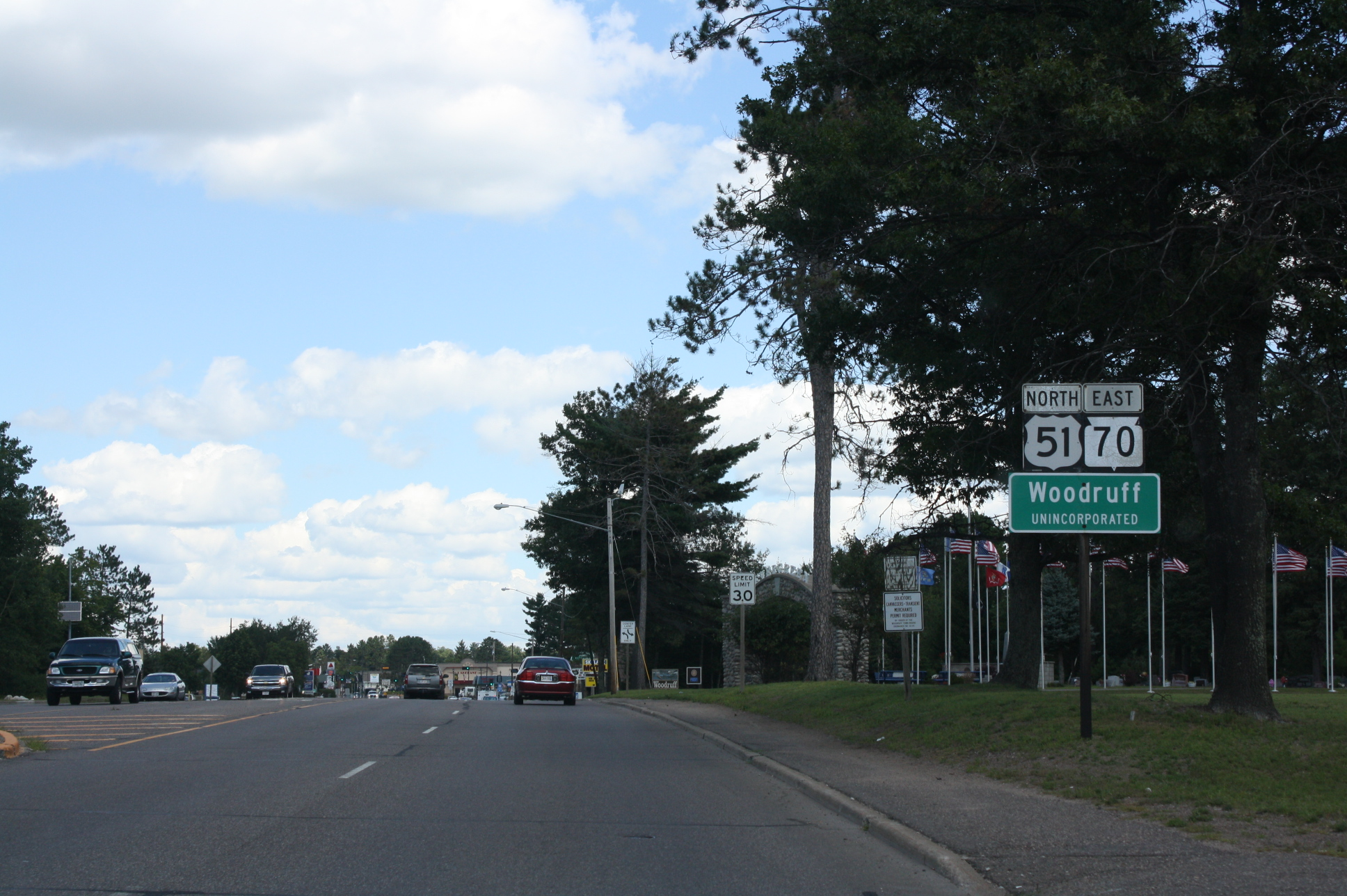 Looking north at the signw:Woodruff (CDP), Wisconsin on U.S. Route 51 / Wisconsin Highway 70.